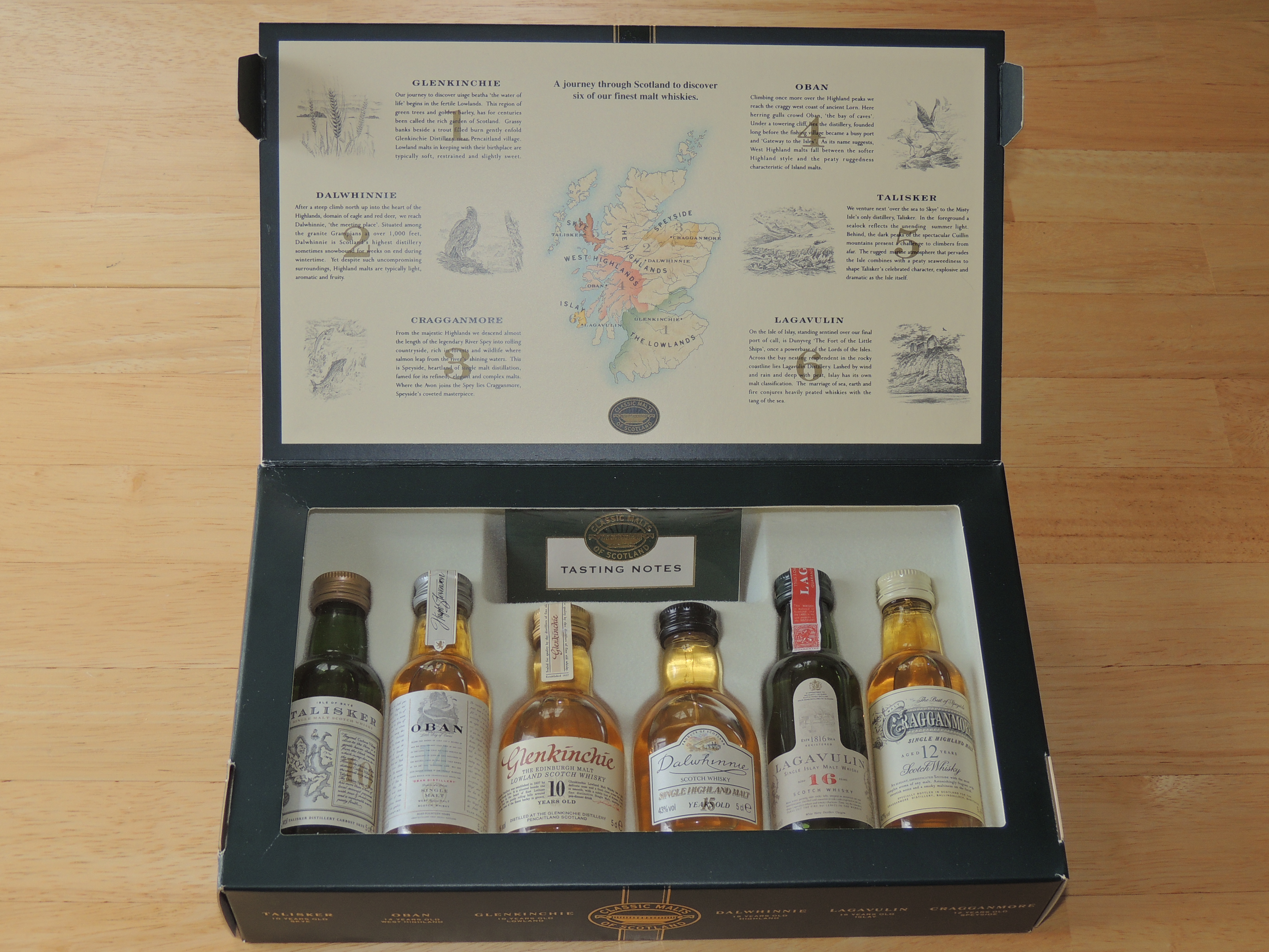 This is the six classic malt whiskys of Scotland outside inside of box.